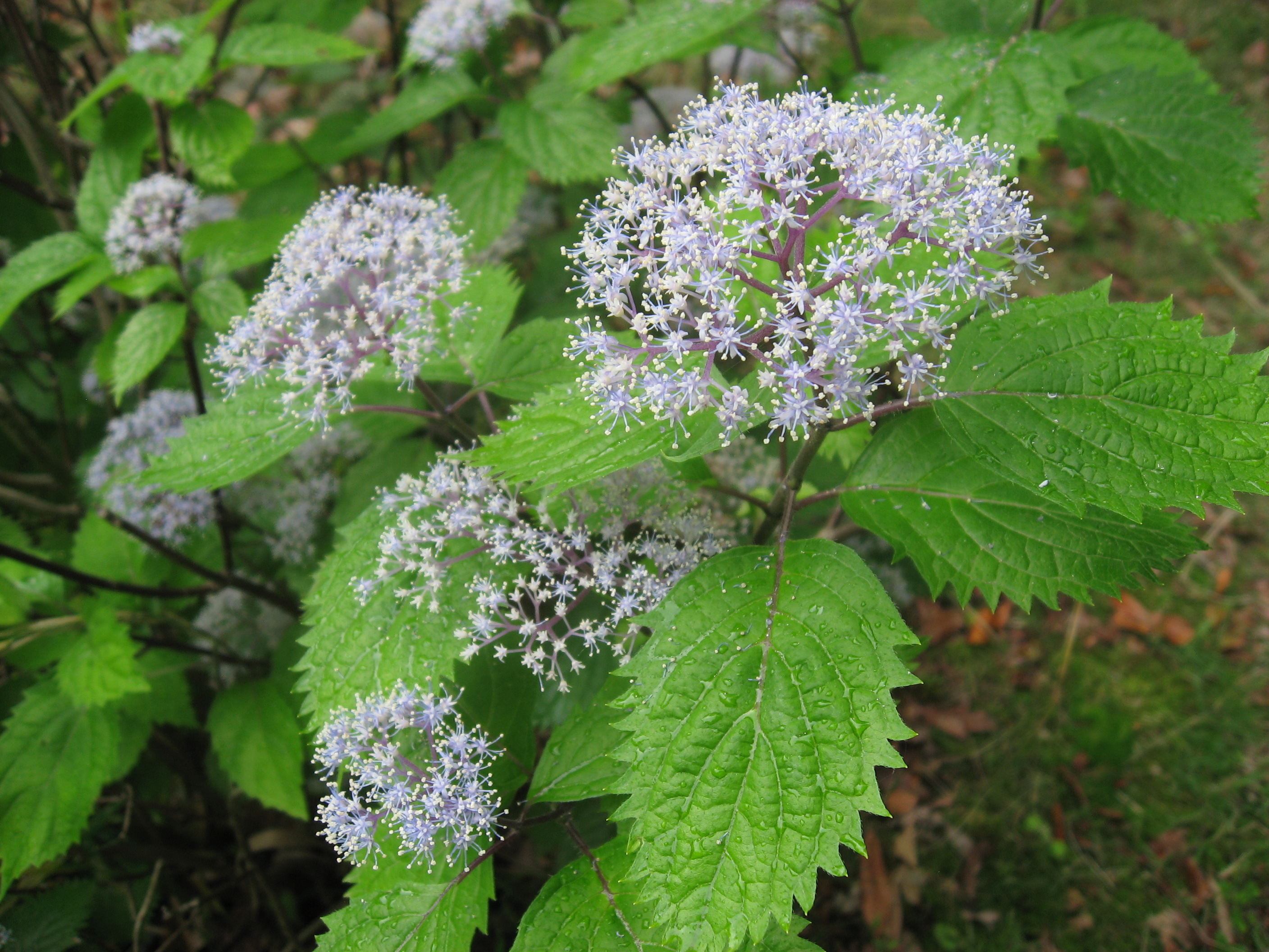 Hydrangea hirta,Musashi Kyuryou National Government Park,Saitama pref.,Japan